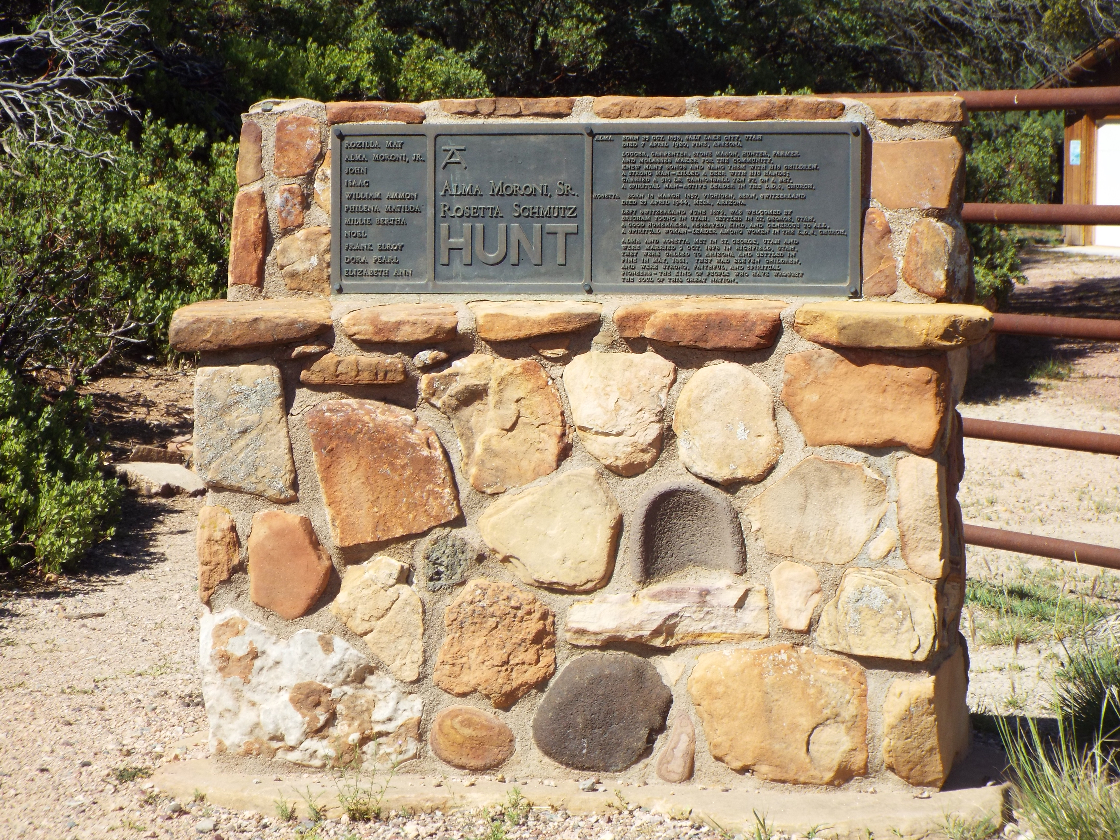 Marker which marks where the Hunt Family house once stood in Pine, Az.